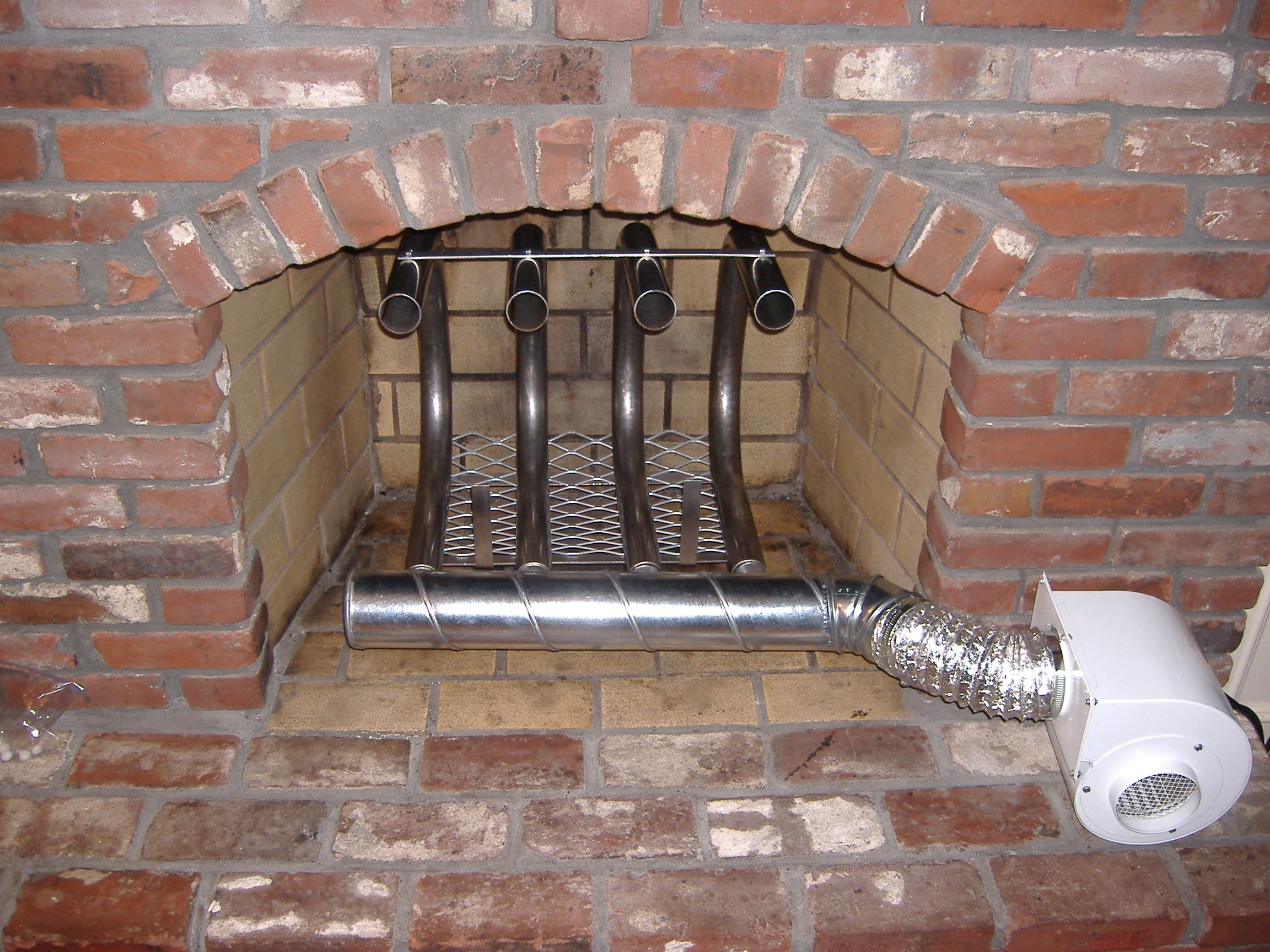 Another large and powerful Grate Heater implementing a single-Blower high volume forced air delivery system